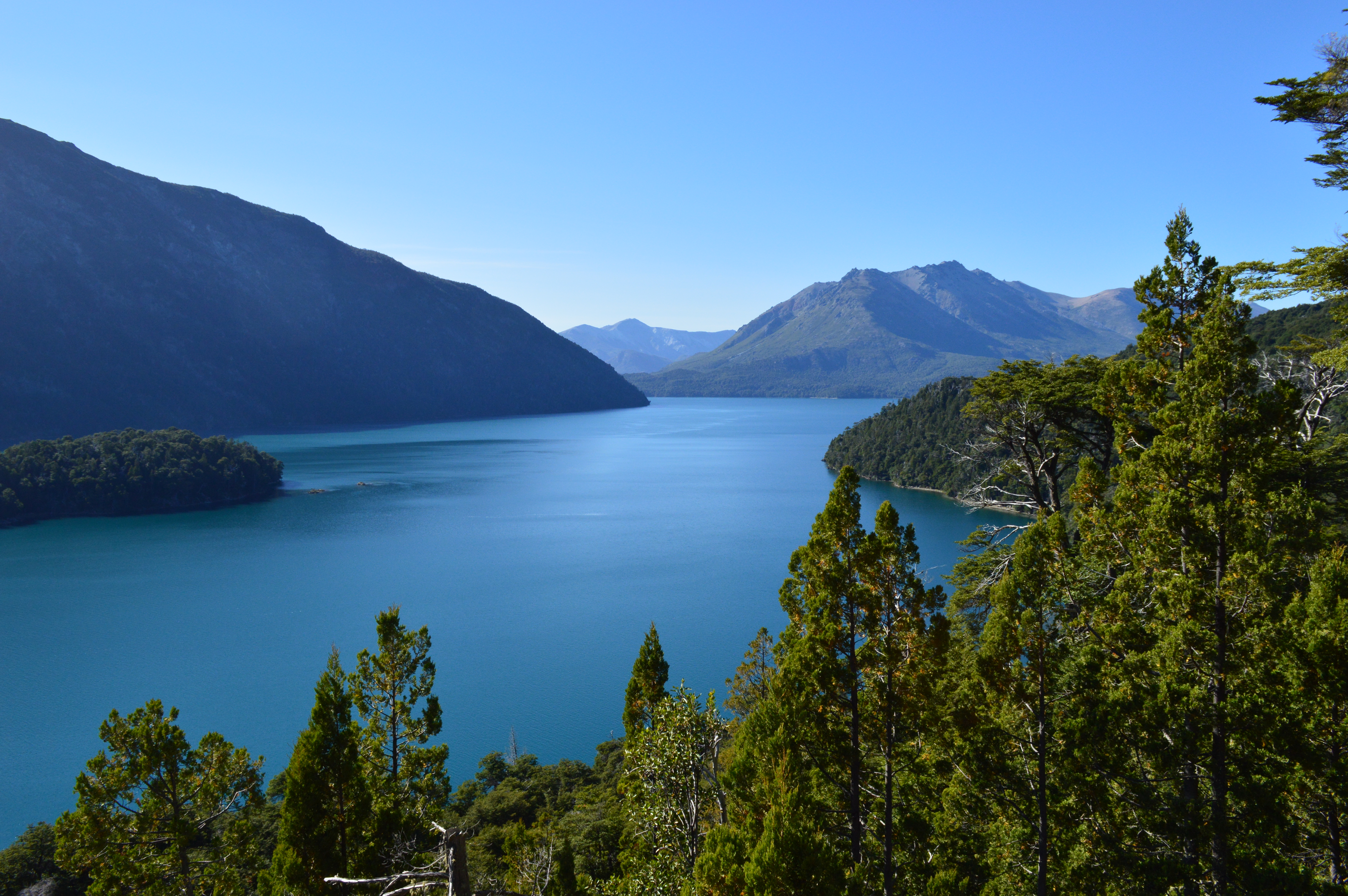 Lake Mascardi, Bariloche, Patagonia, Argentina